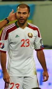 Timofei Kalachev